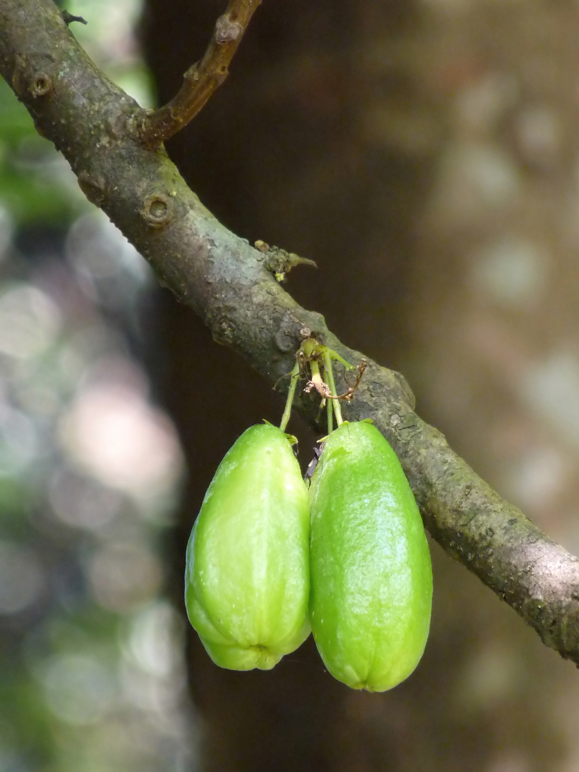 Averrhoa bilimbi (Bilimbi, Cucumber tree, Tree sorrel) is a fruit-bearing tree of the genus Averrhoa, family Oxalidaceae. It is a close relative of carambola tree. The bilimbi tree reaches 5–10 m in height. Its trunk is short and quickly divides up into ramifications. Bilimbi leaves, 3–6 cm long, are alternate, imparipinnate and cluster at branch extremities. There are around 11 to 37 alternate or subopposite oblong leaflets. The leaves are quite similar to those of the Otaheite gooseberry. Possibly originated in Moluccas, Indonesia, the species are now cultivated and found throughout the Philippines, Indonesia, Sri Lanka, Bangladesh, Myanmar (Burma) and Malaysia. It is also common in other Southeast Asian countries. In India, where it is usually found in gardens, the bilimbi has gone wild in the warmest regions of the country.